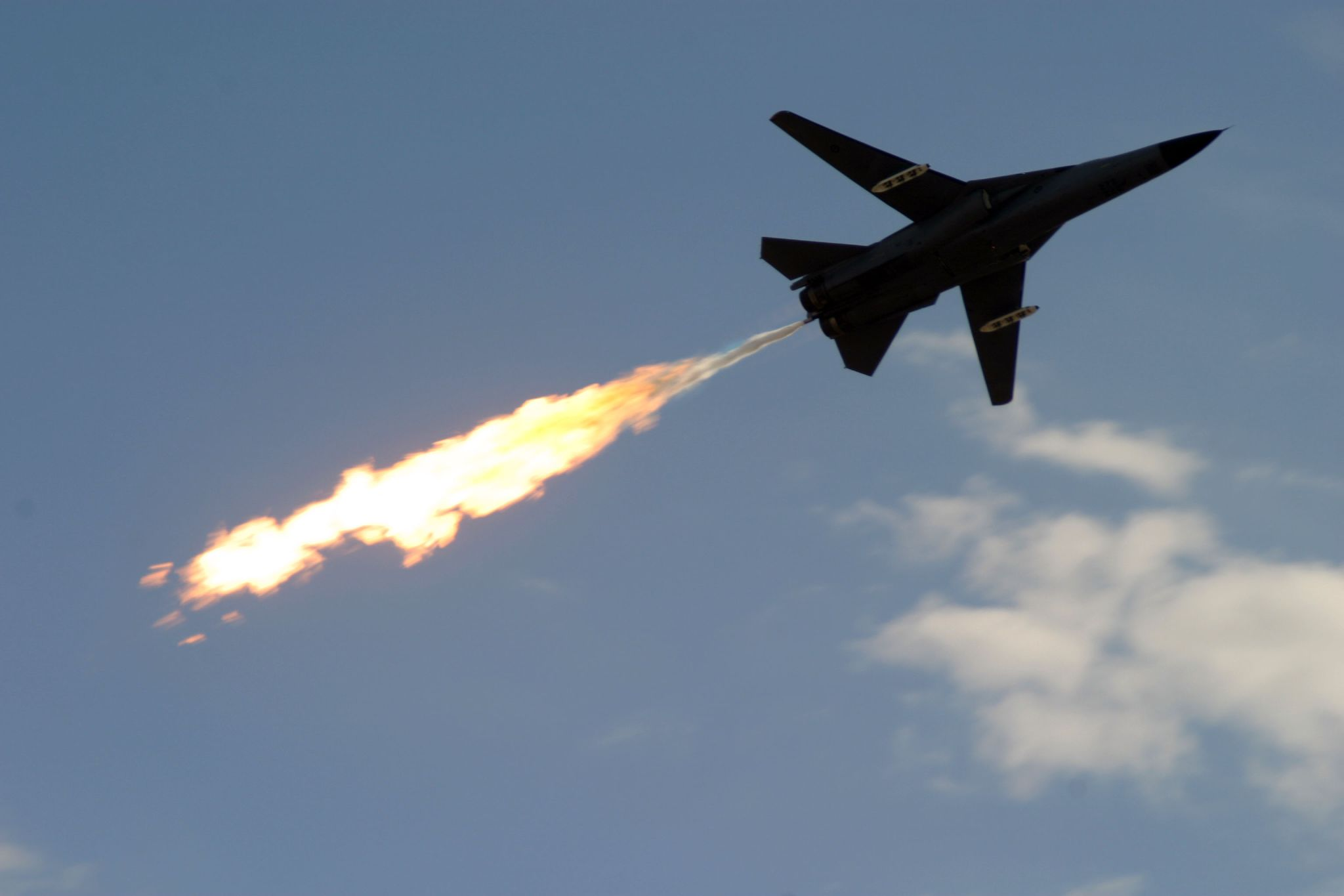 General Dynamics F-111